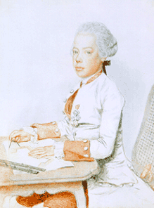 Archduke Peter Leopold, later Leopold II, Holy Roman Emperor, drawing the plan of a fortification, previously misidentified as Archduke Charles Joseph of Austria (1745–1761), second son of Empress Maria Theresia